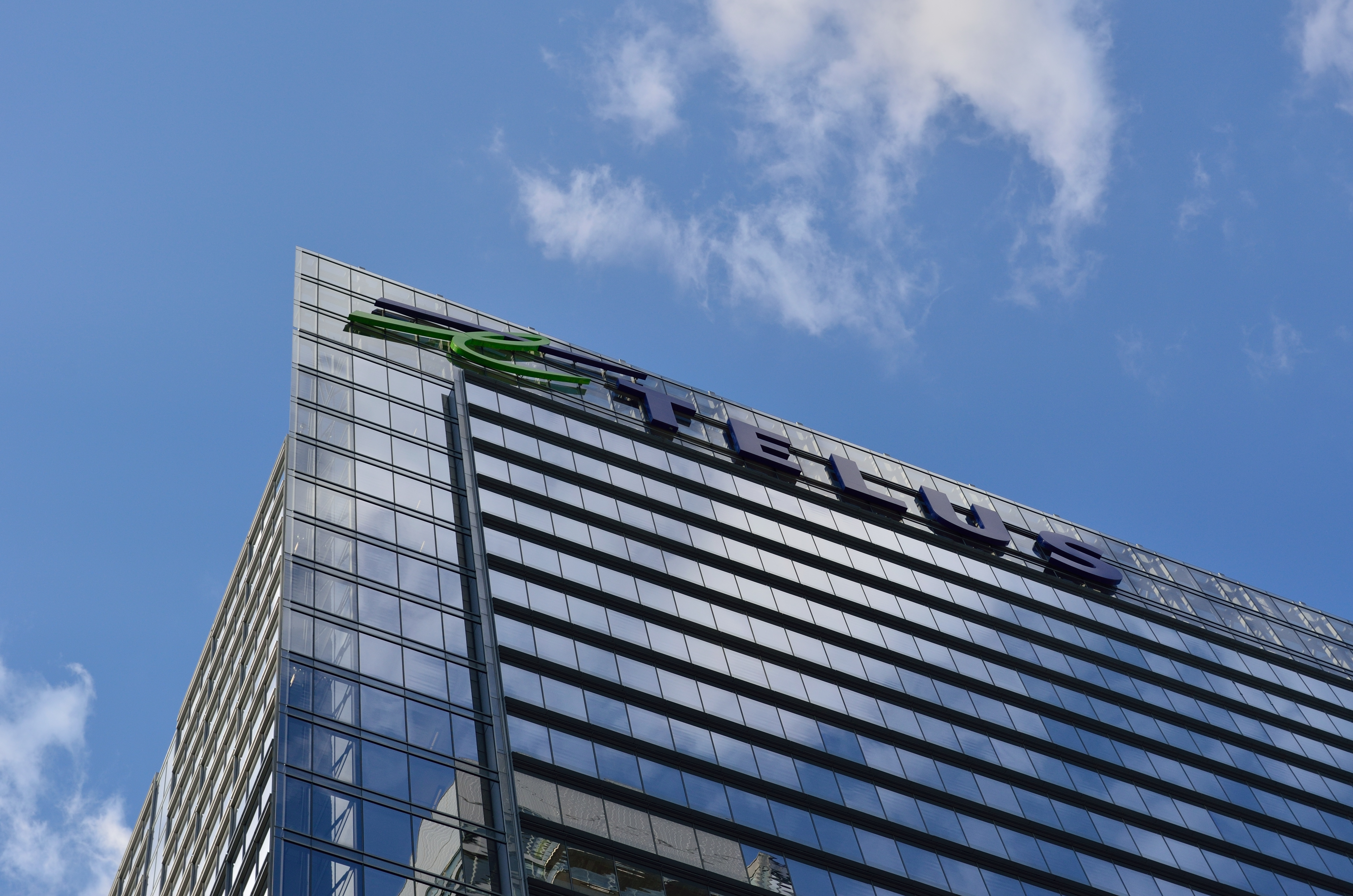 Telus House - 25 York Street